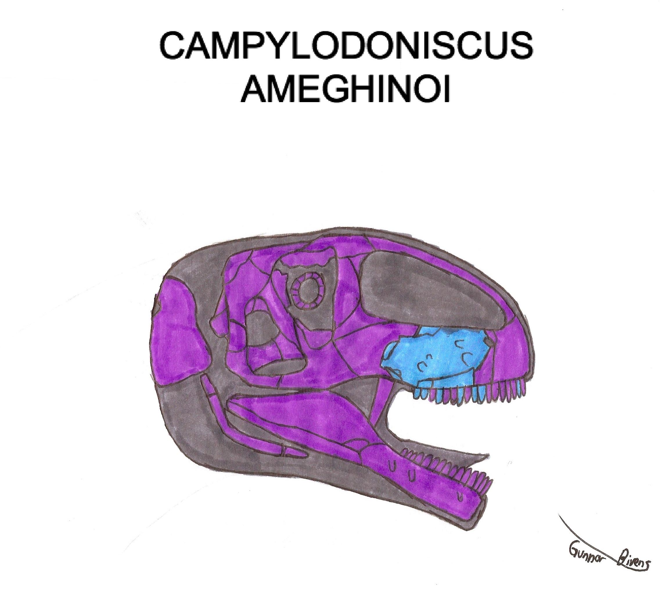 Skull restoration